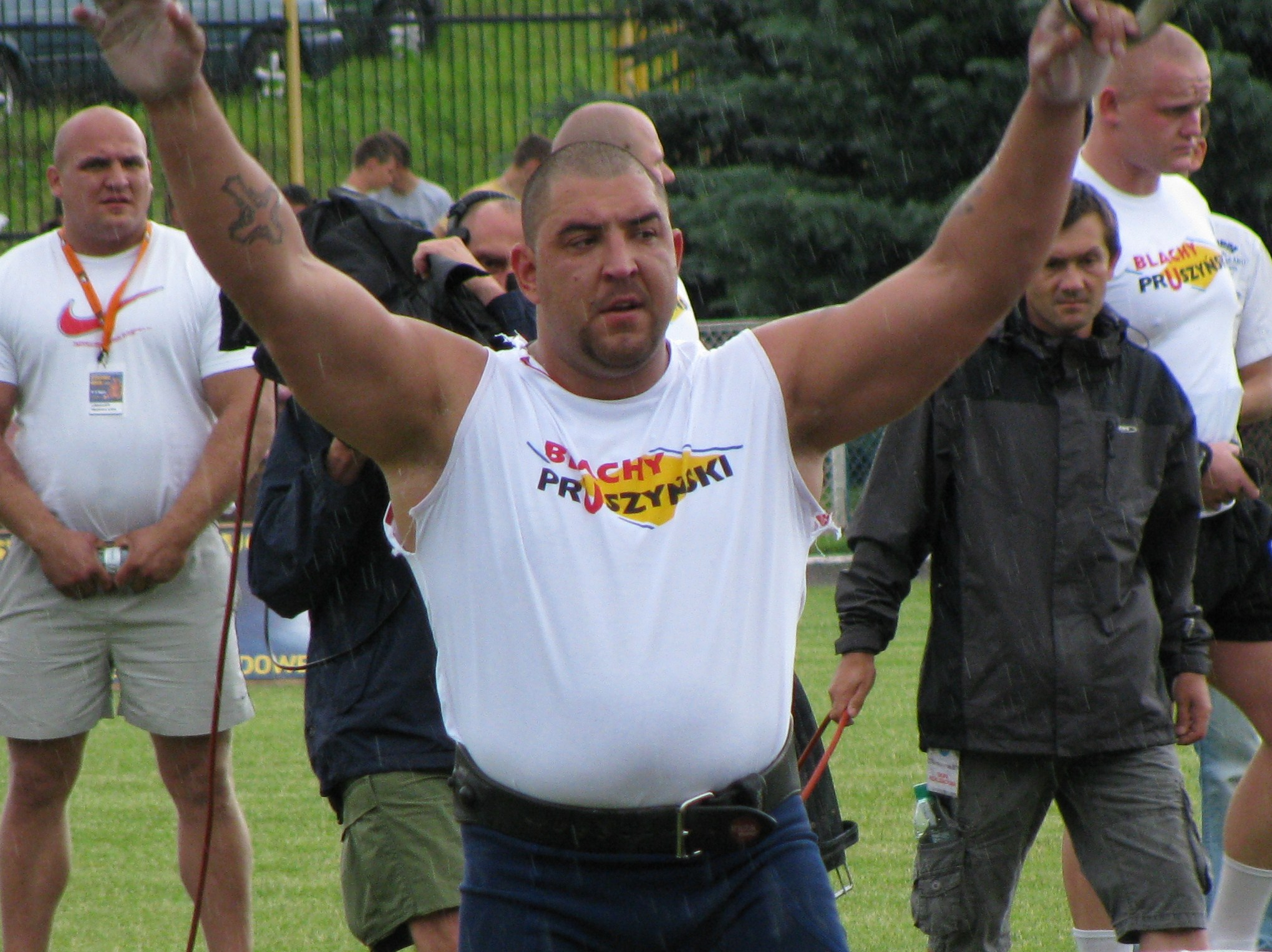 Raivis Vidzis - a strength athlete from Latvia